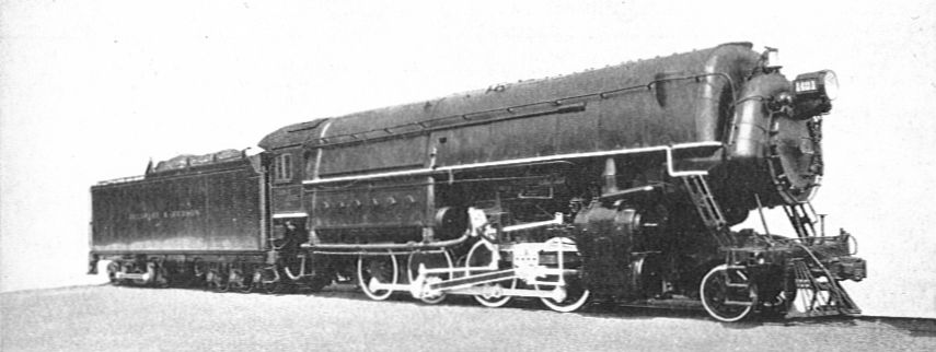 High-pressure Locomotive "John B. Jervis" D.&H. R.R. Fitted with Water-Tube Boiler pressed at 400-lbs. per square inch. Photo: Delaware & Hudson R.R.